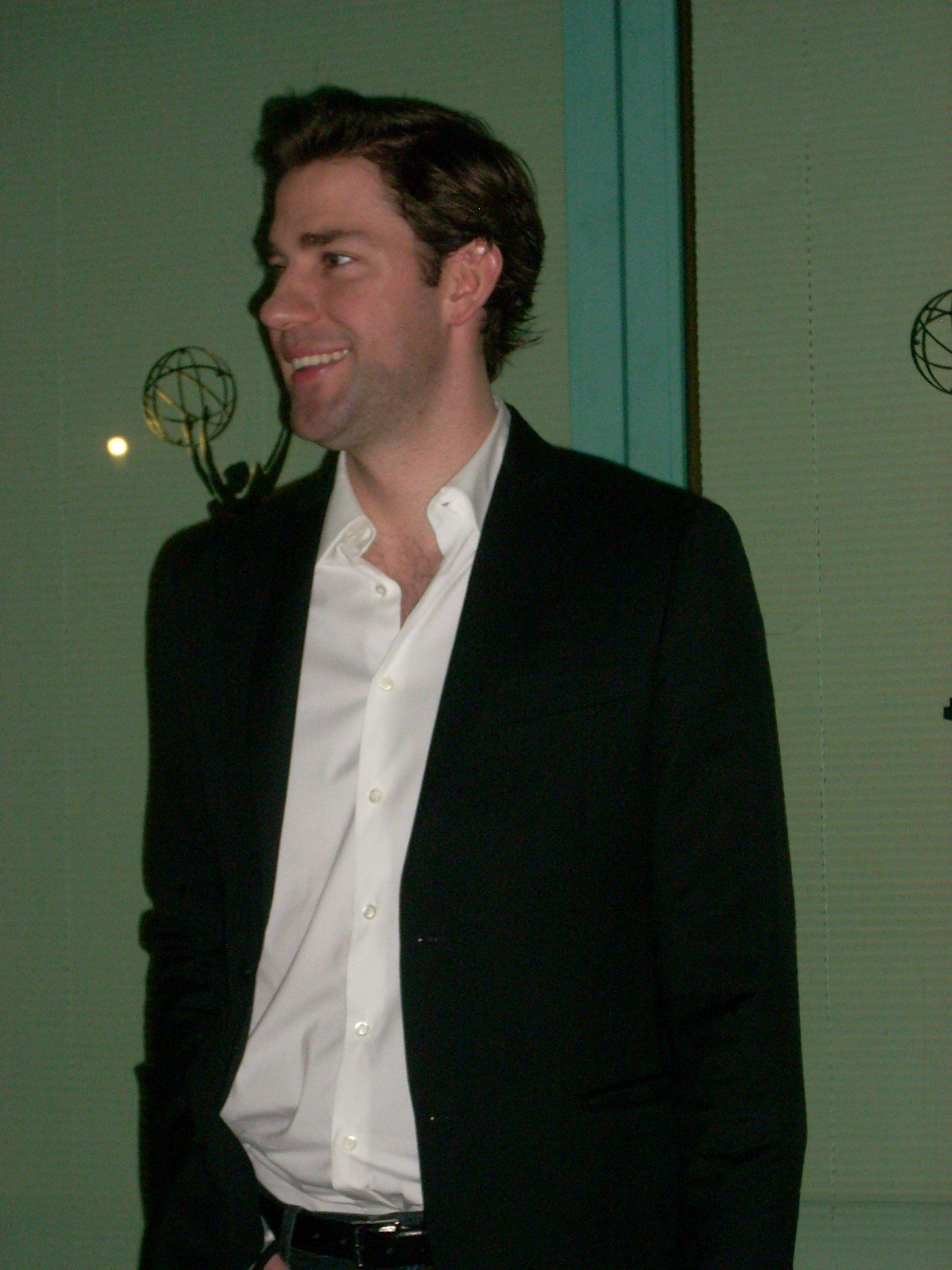 John Krasinski - Inside "The Office" at the Academy of Television Arts & Sciences, North Hollywood, California.